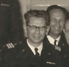 Commander Schtoyer Sirton IDF Navy